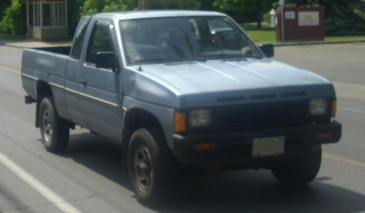 1986.5-1987 Nissan Hardbody Truck photographed in Montreal, Quebec, Canada.